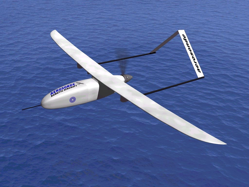 AEROSONDE UAV, Atlantic 1998, Wallpaper free for common use